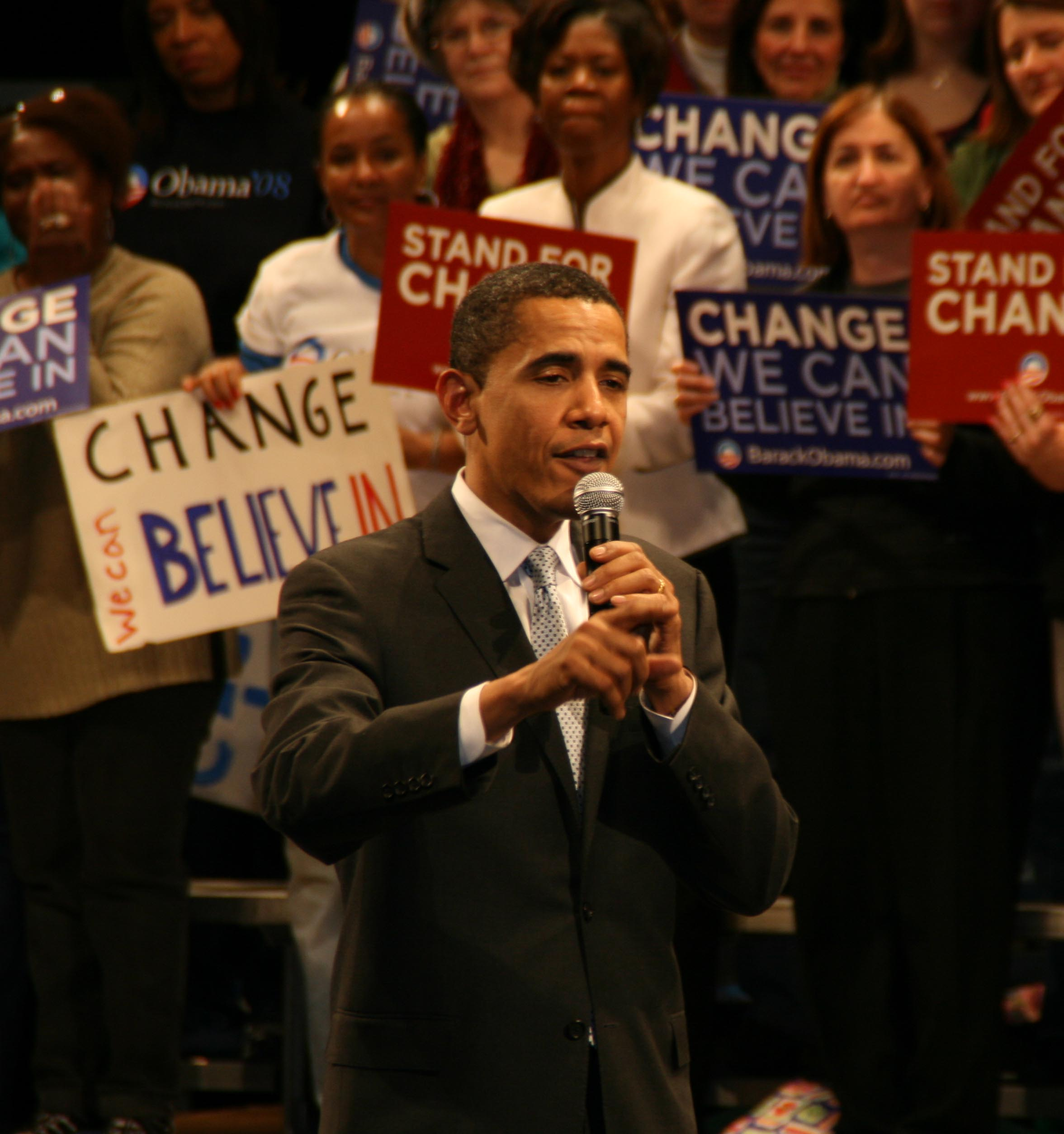 image of barack obama